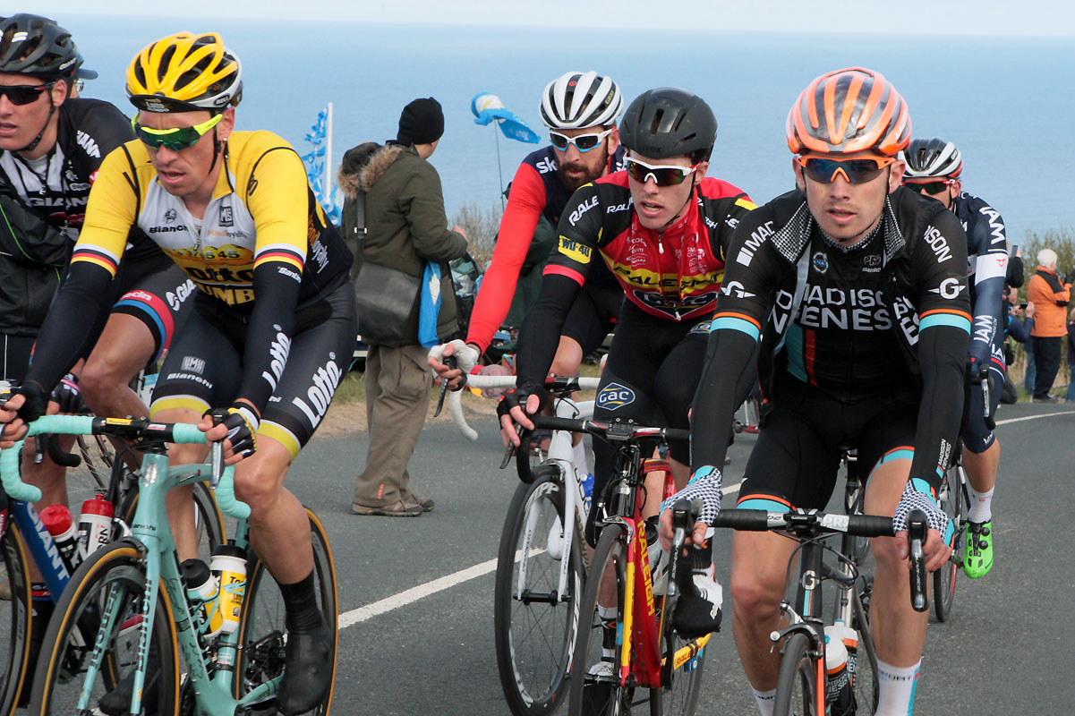 Bradley Wiggins in a small group on Stage 1 at the top of the climb from Robin Hoods Bay .. but minutes behind the leaders